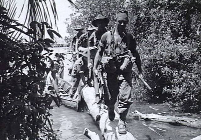 Labuan island, off Borneo, June 15, 1945. Members of a patrol from “A” Company, Australian 2/43rd Infantry Battalion, unload a boat and walk along a large fallen tree, as they move inland to investigate reports of Japanese activity.